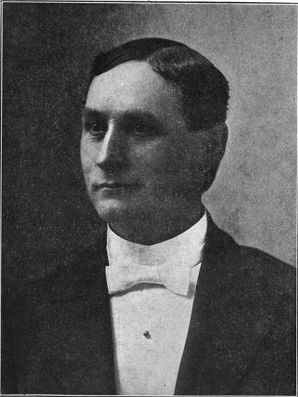 Photo of Richard Charles Evans, Member of the First Presidency in the Reorganized Church of Jesus Christ of Latter Day Saints (RLDS Church) and founder of the Church of the Christian Brotherhood.